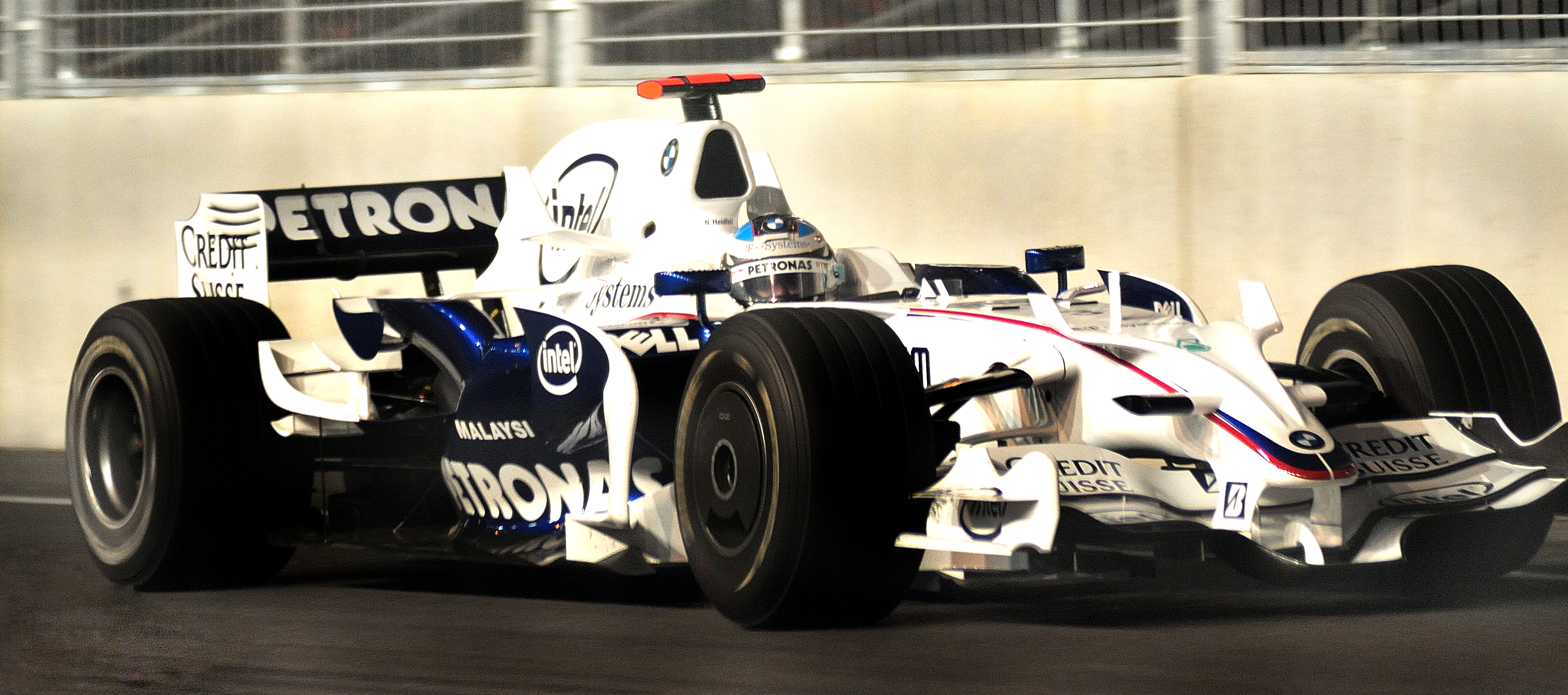 Nick Heidfeld Team :BMW Sauber Location : Singapore Grandprix 2008 Sector : Turn 14